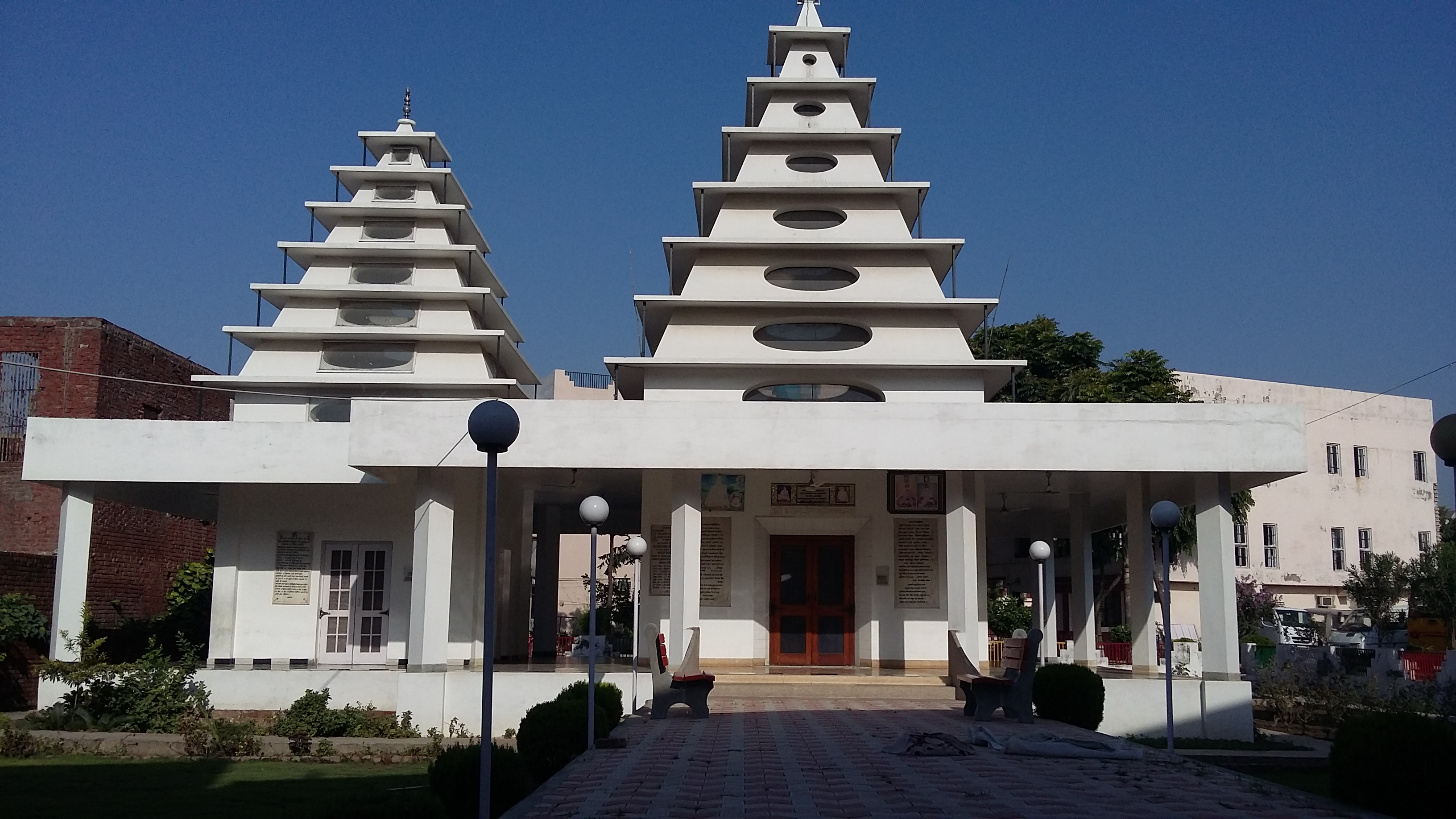 ਜੈਨ ਮੰਦਿਰ ਖੰਨਾ